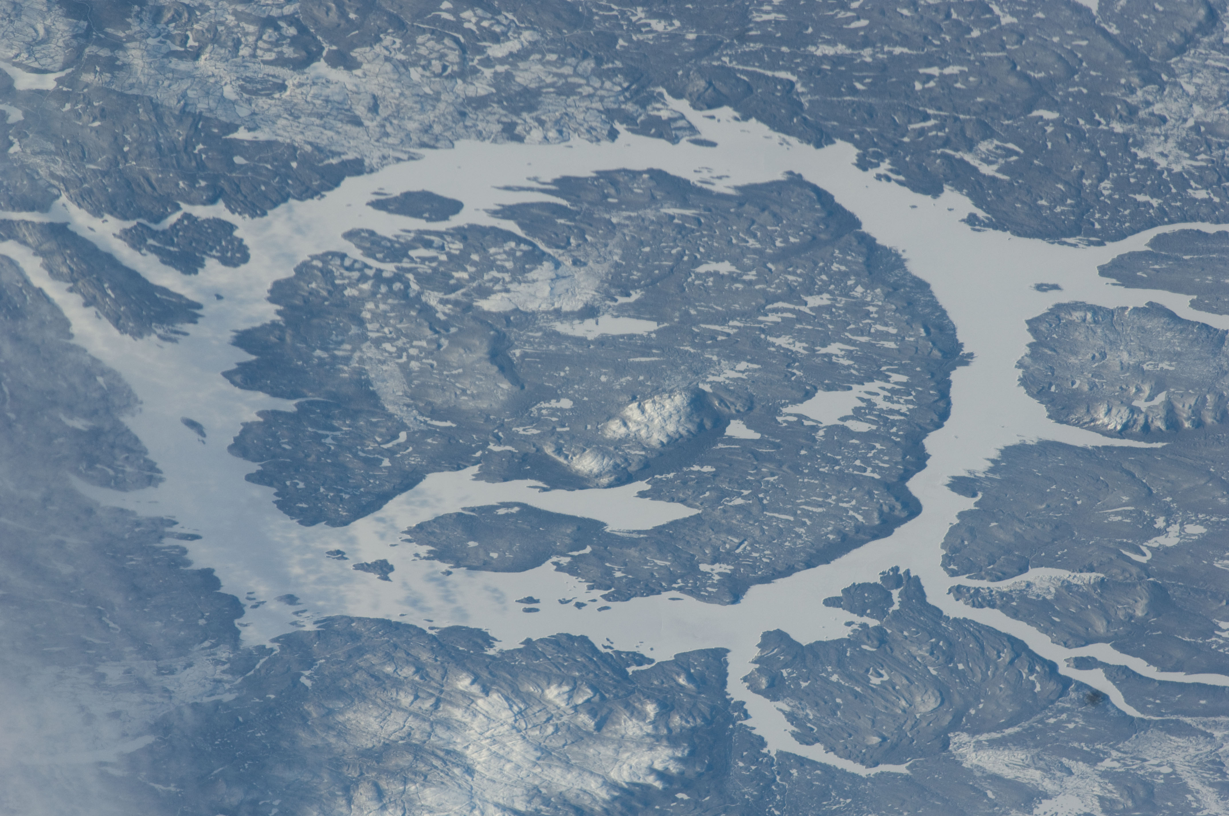 This photo showing the Manicouagan Reservoir in Quebec, Canada, was photographed by one of the Expedition 30 crew members aboard the International Space Station. The Manicouagan Reservoir marks the site of an impact crater, 60 miles (100 kilometers) wide, which, according to scientists, was formed 212 million years ago when a meteorite crashed into this area. Scientists say that over millions of years the many advancing and retreating glaciers and other erosional processes have worn down the crater.